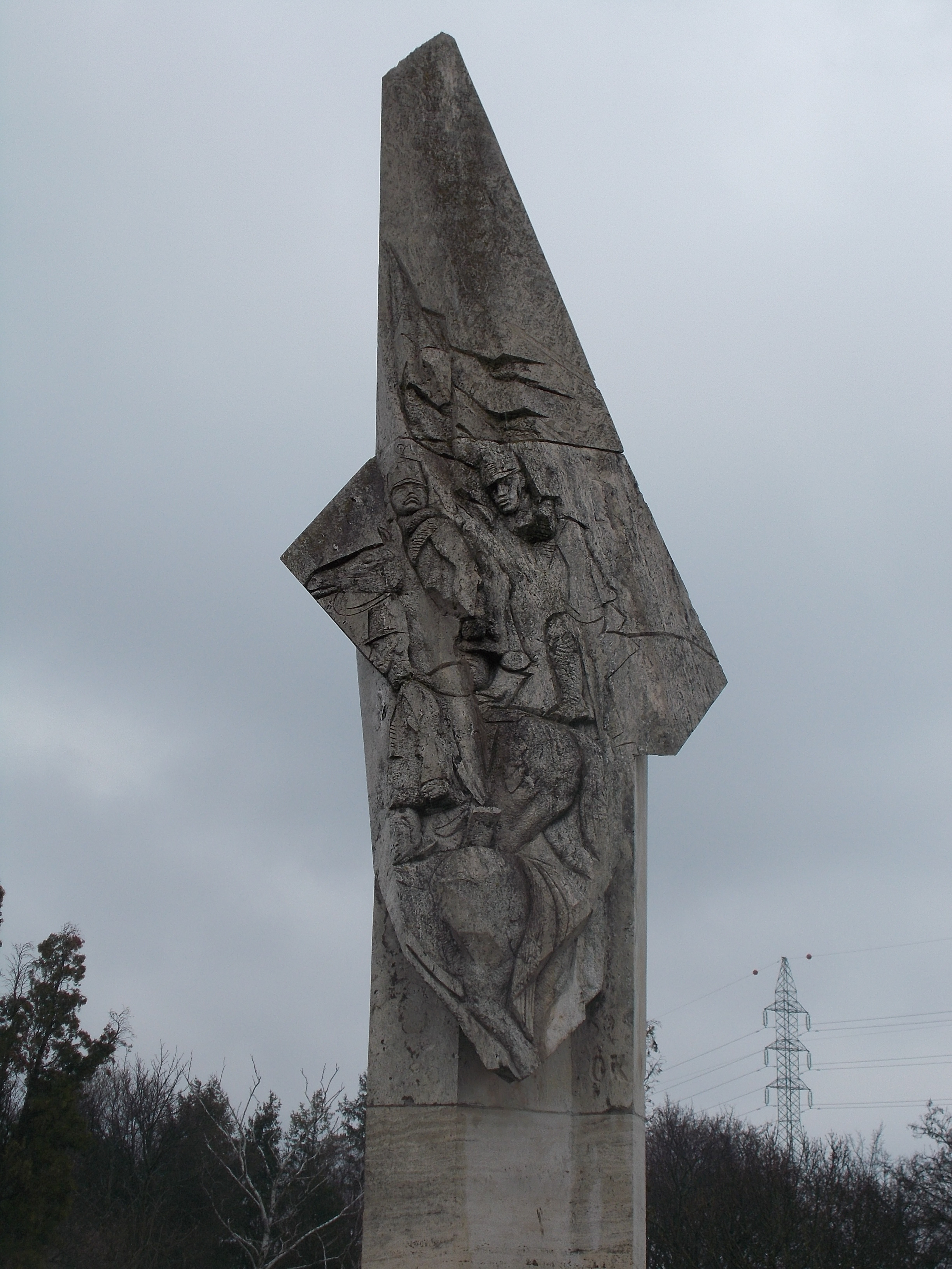 Battle of Tétény memorial by Károly Ócsai, 1996 in the former mansion park. Modern sculpture. Relief of Coat of Arms, limestone, 1848 related Monument. - Budapest District XXII., Hungary, in front of Százaz-Rudnyánszky mansion